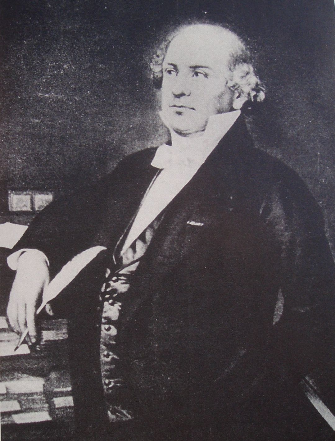 Painting of German writer and actor Louis Schneider